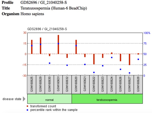 Expression levels of the gene in sperm with teratozoospermia, which is a condition where sperm have abnormal morphology, affecting the fertility in males.